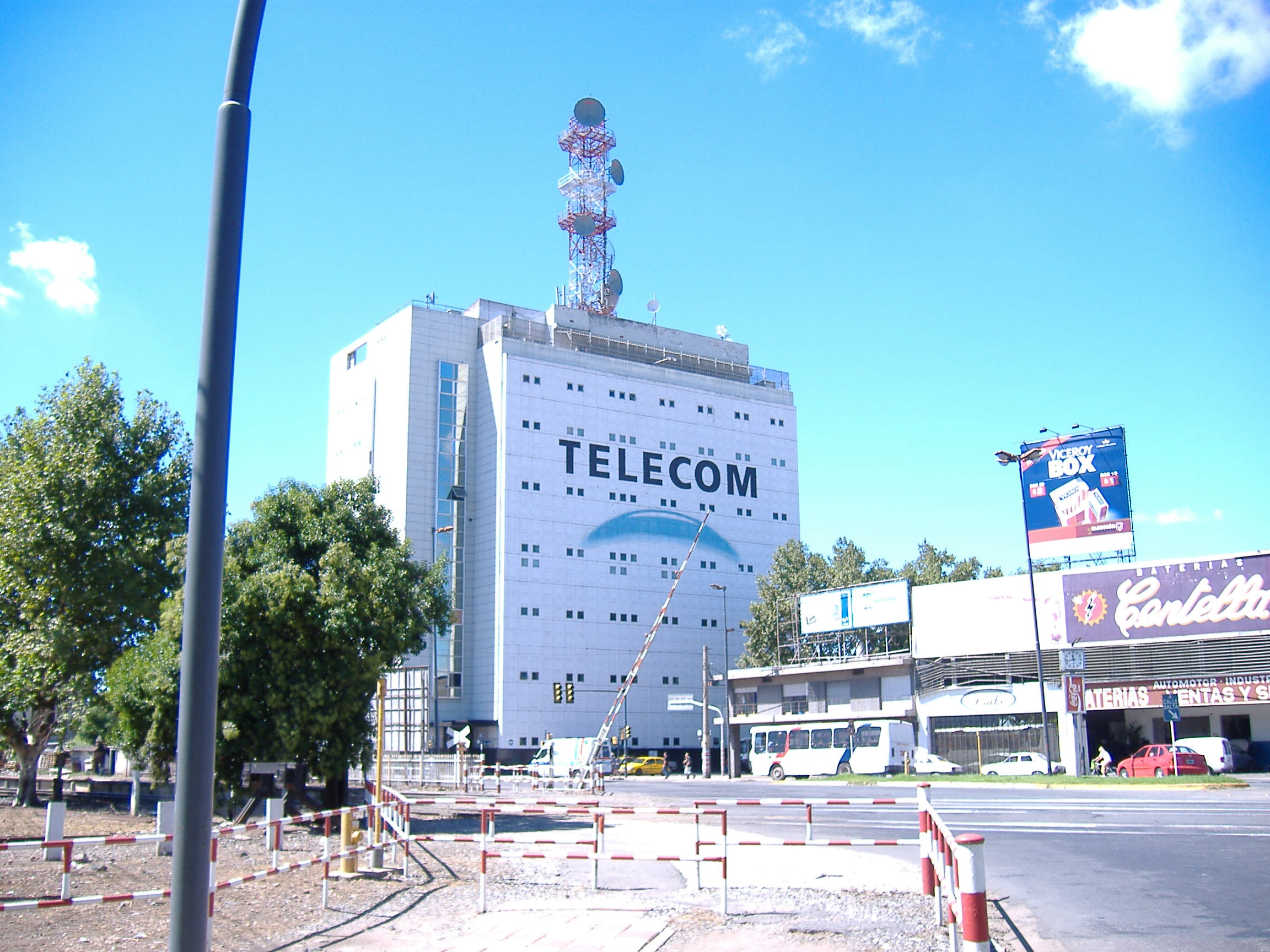 The main seat of Telecom, one of the two providers of telephonic services in Argentina, in the city of Rosario (near the Cruce Alberdi, corner of San Nicolás St. and Salta St.). This picture was taken by Pablo D. Flores on 4 March 2006.